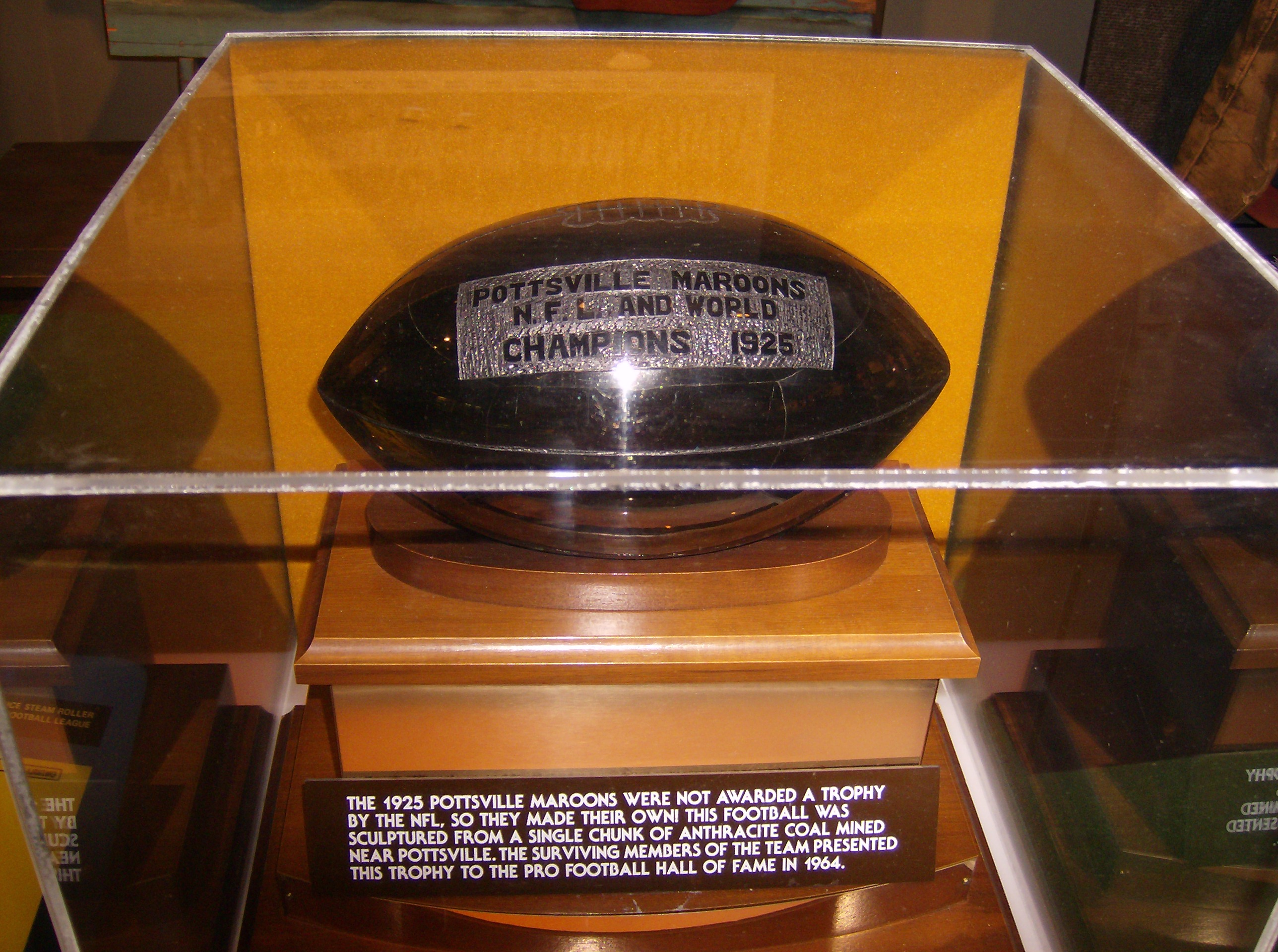 The Pottsville Maroons' self-made 1925 NFL Championship trophy (carved out of anthracite coal) on display at the Pro Football Hall of Fame in 2006.